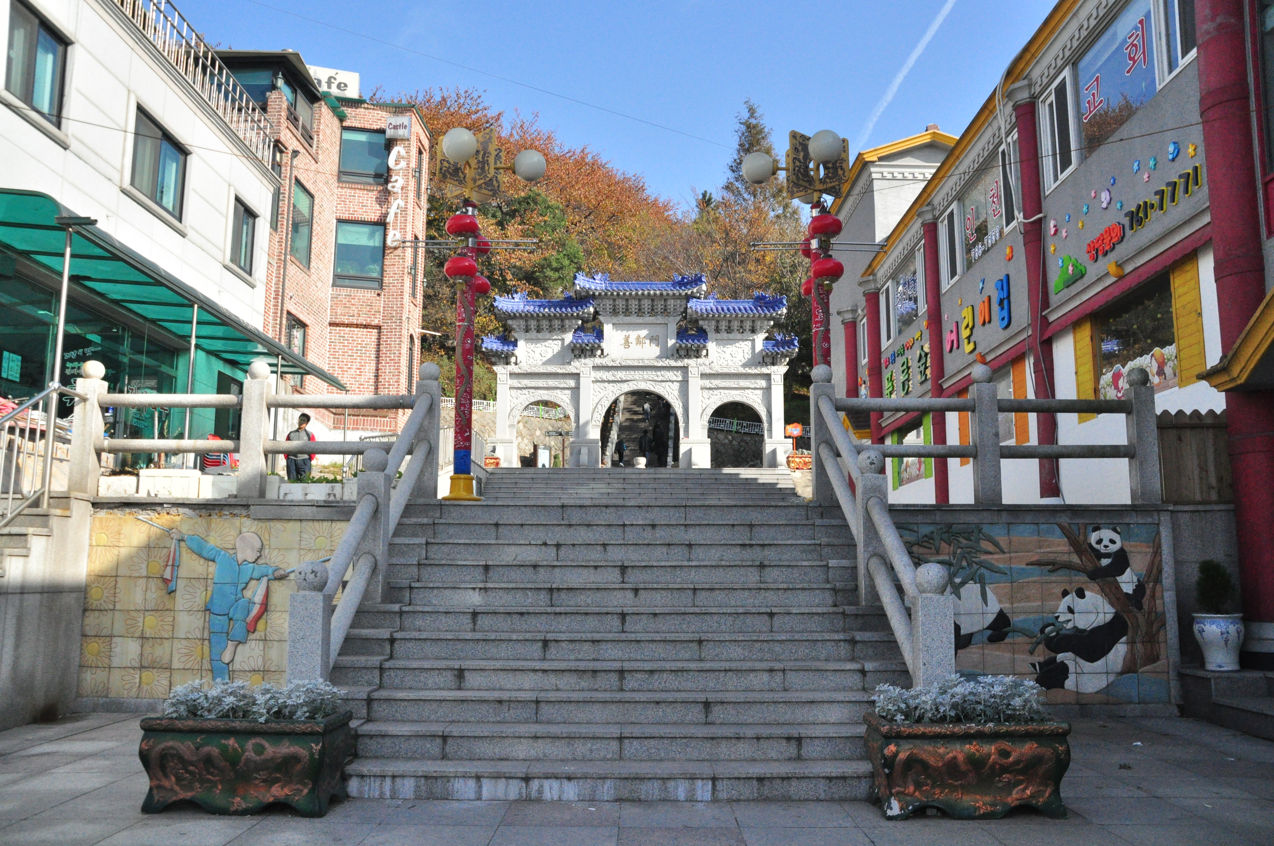 China Town to Freedom Park